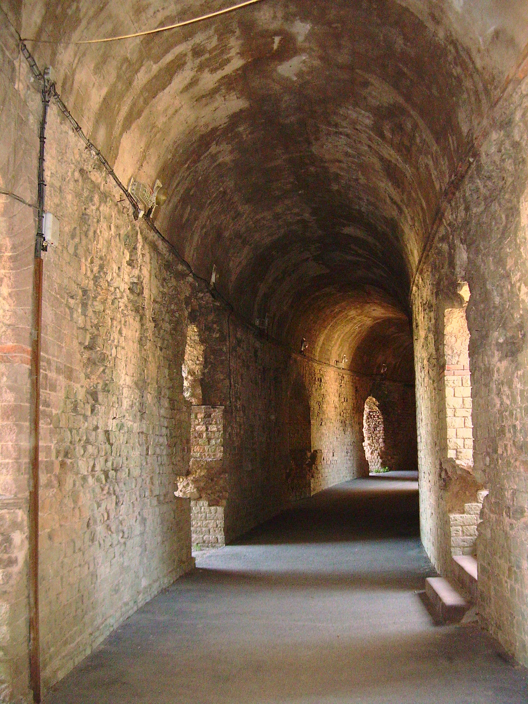 Roman amphitheatre of Fréjus or Forum Julii, Var, France